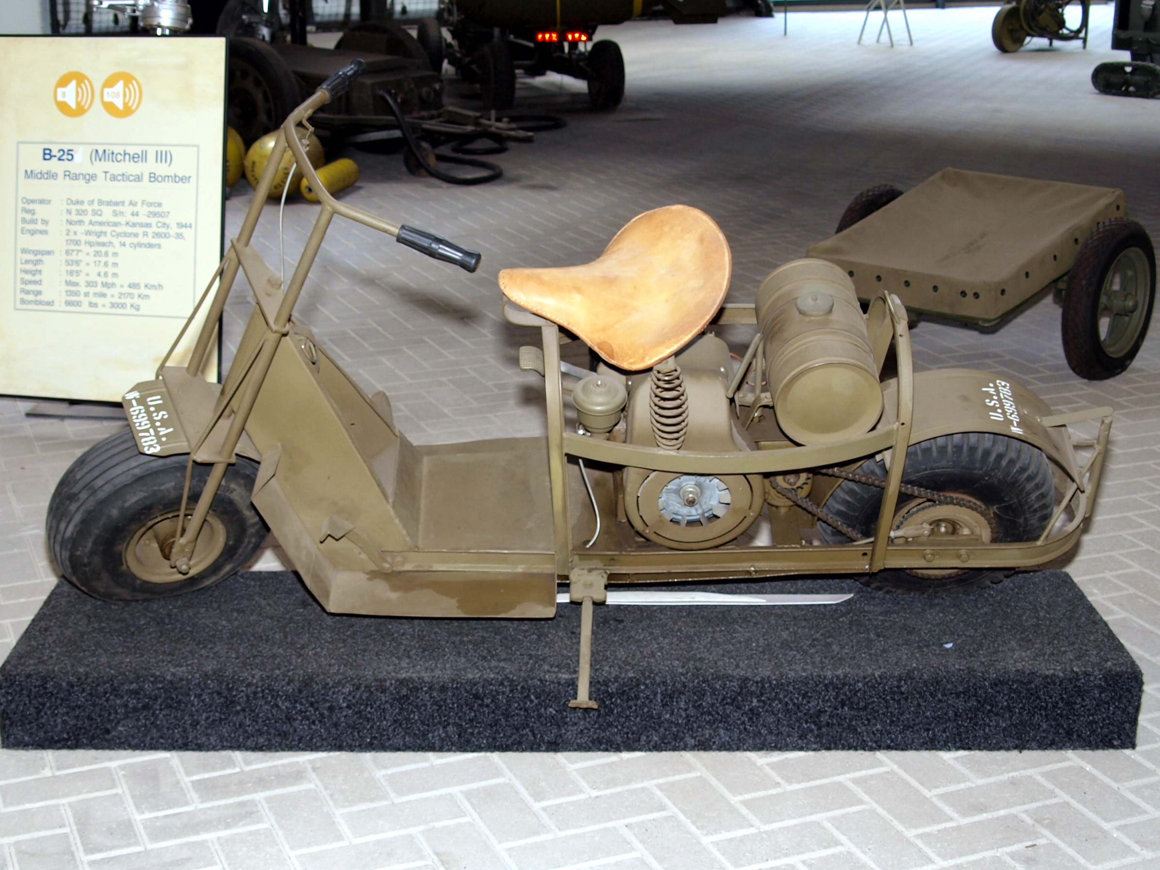 Cushman model 53 "Airborne"; photographed at the Marshallmuseum - Liberty Park - Oorlogsmuseum Overloon, The Netherlands. OLYMPUS DIGITAL CAMERA